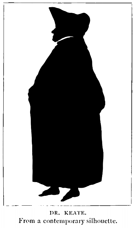 John Keate, Head Master of Eton College, 1809–1834